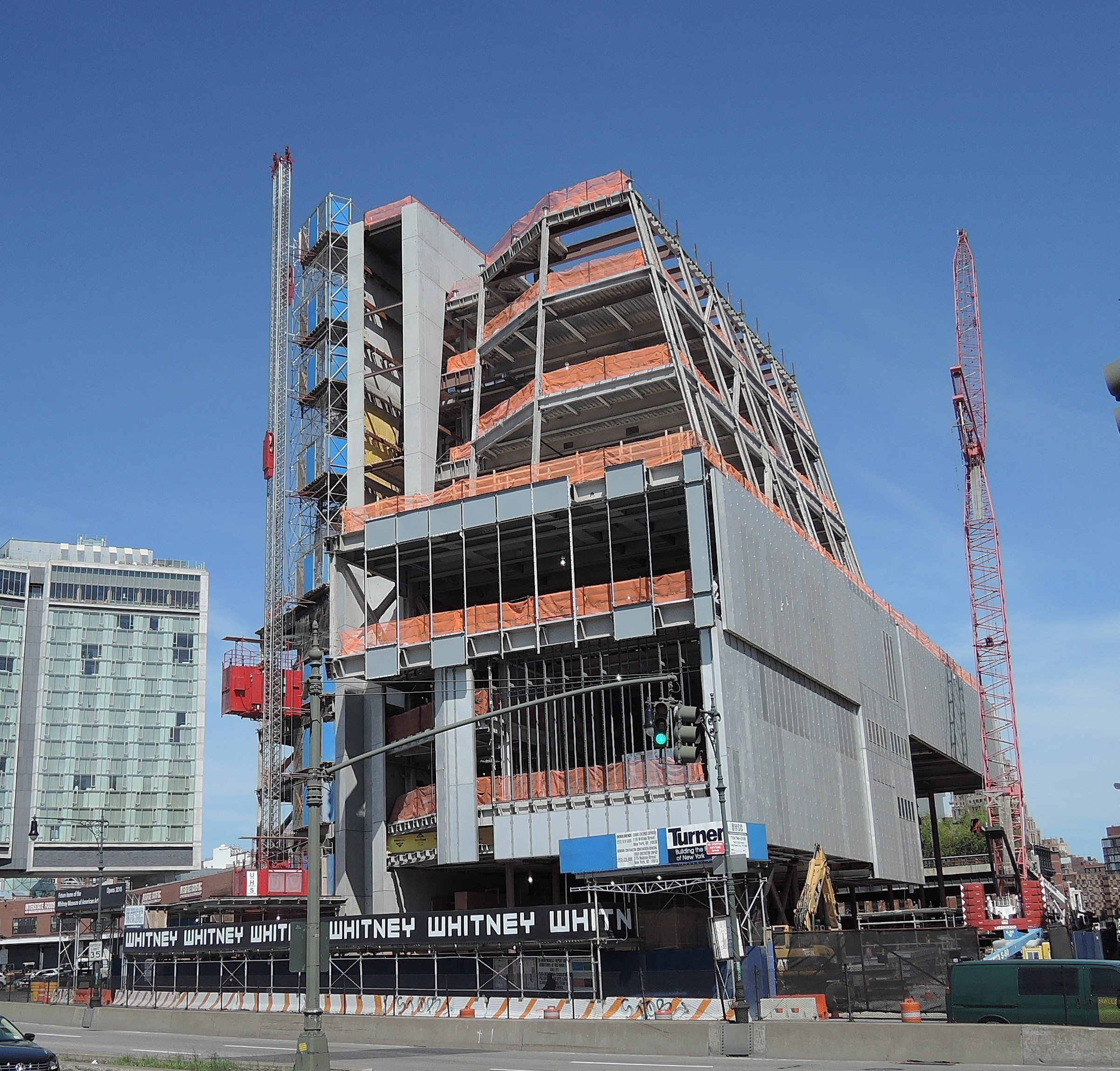 Looking east across West St at construction on a sunny afternoon.